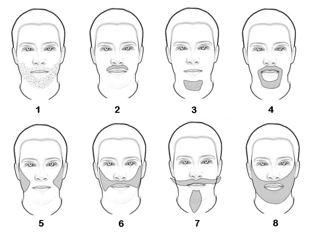 1 - Stubble, 2 - Moustache, 3 - Goatee, 4 - Van Dyke, 5 - Mutton-chops, 6 - Friendly Muttonchops, 7 - Spanish beard, 8 - Full beard